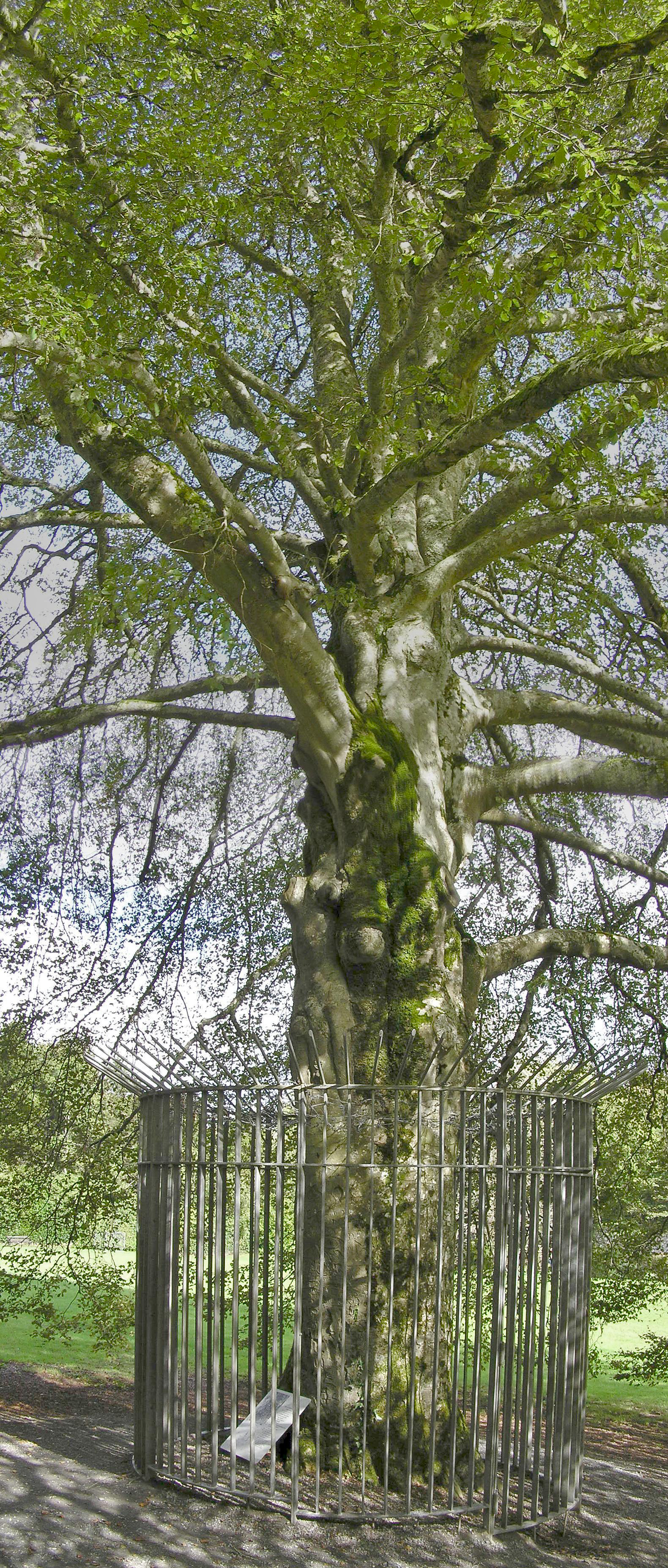 Autograph Tree, Coole Park, County Galway, Ireland